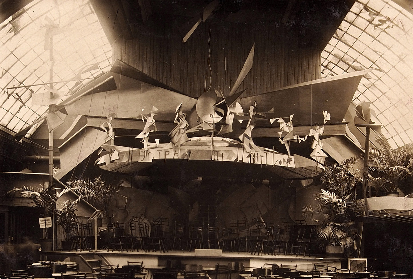 General view of the stage cafe "Pittoresk" (Moscow). 1918 Art project and leadership of